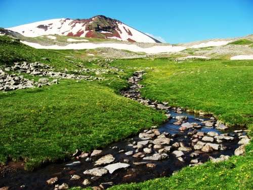 Climbing to Azdahak by violettarmenia,com